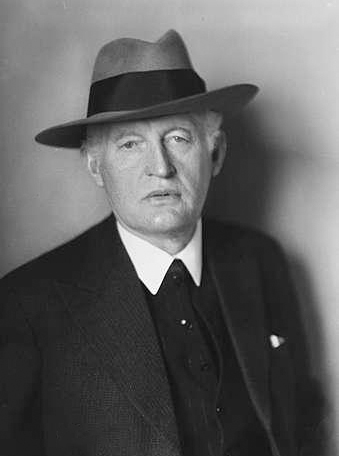 Norwegian painter Edvard Munch.